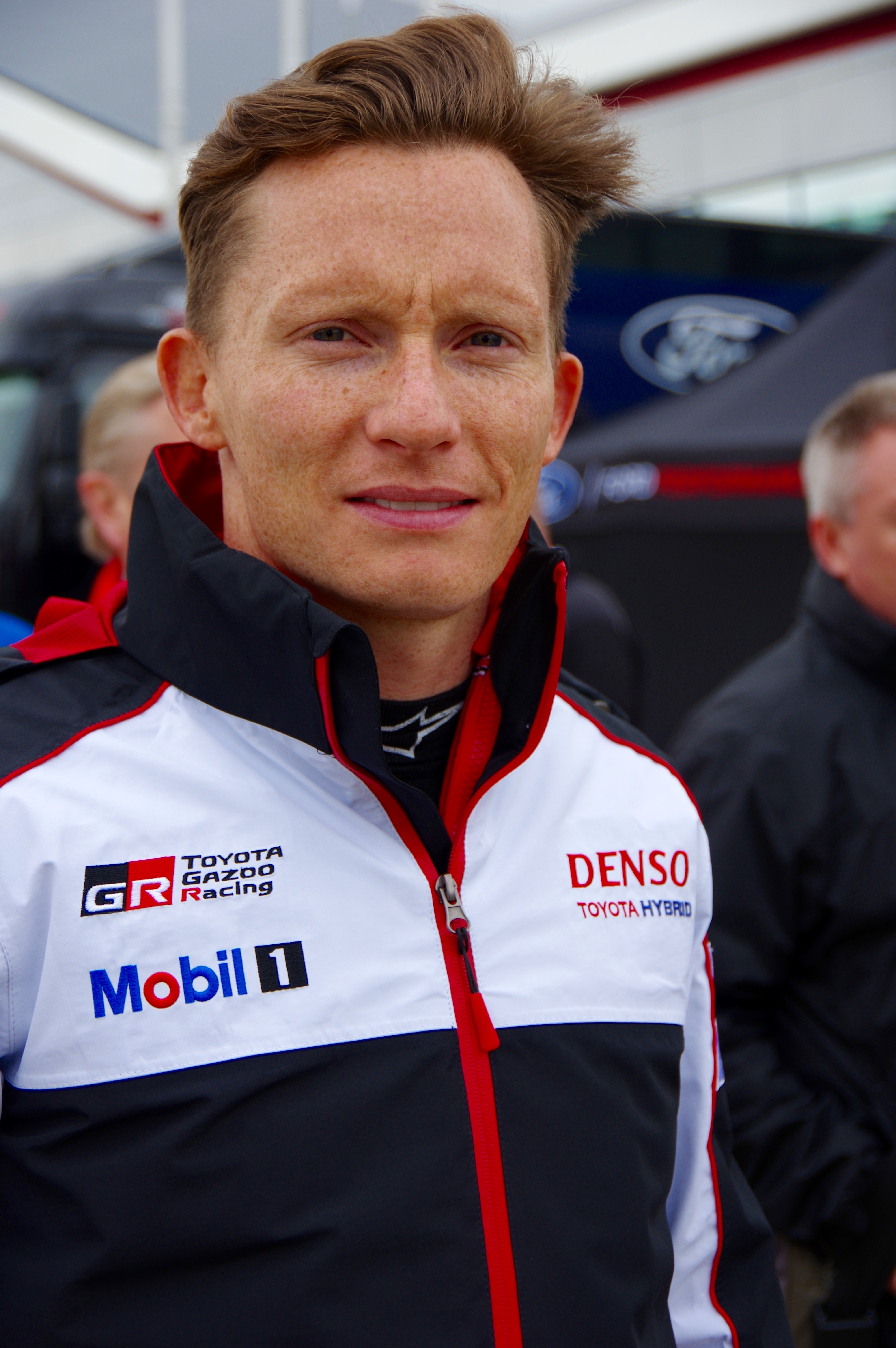 Mike Conway, driver of Toyota Gazoo Racing's Toyota TS050 Hybrid